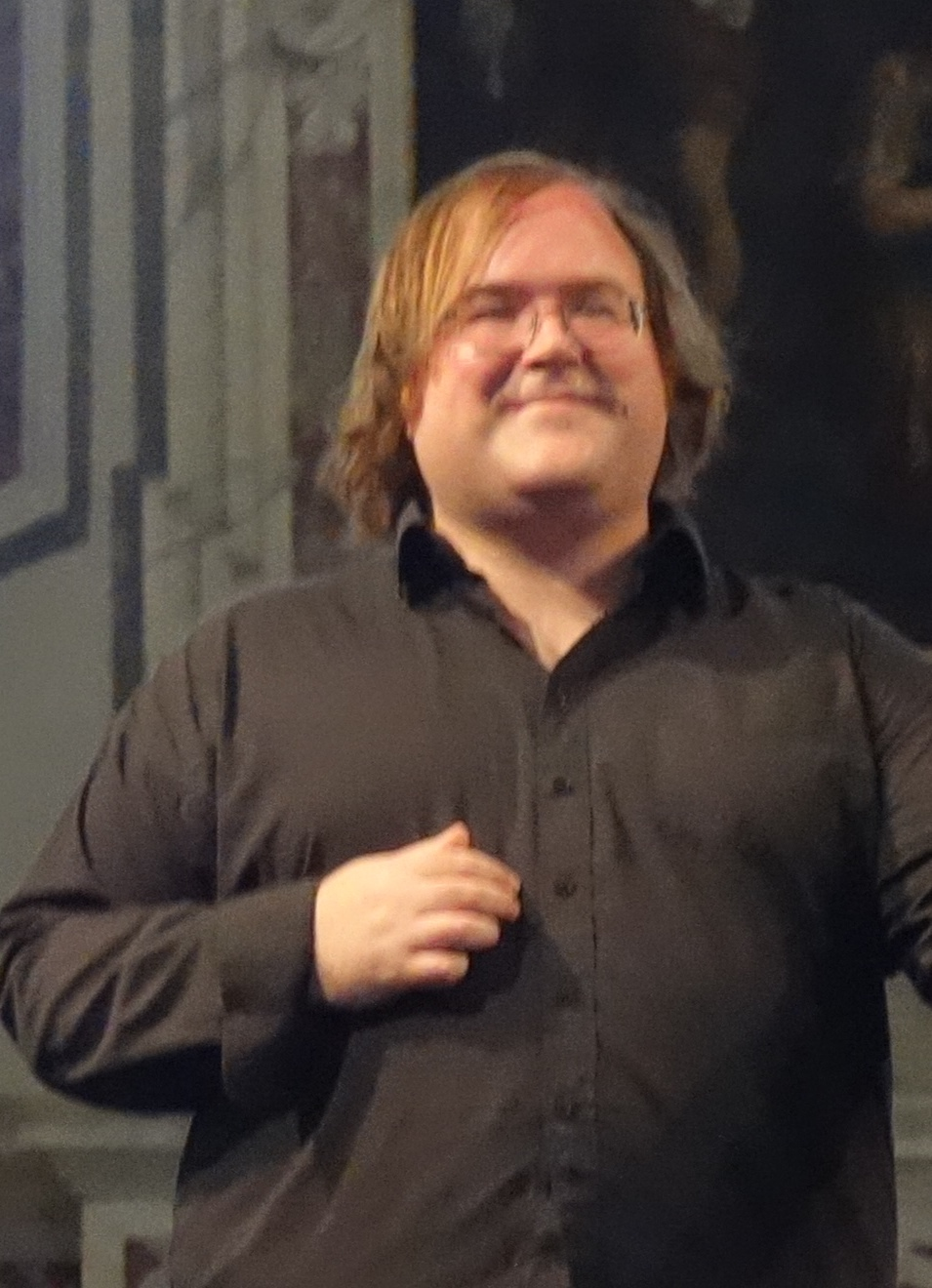 Norwegian pianist Christian Ihle Hadland (Lucca, 2017)